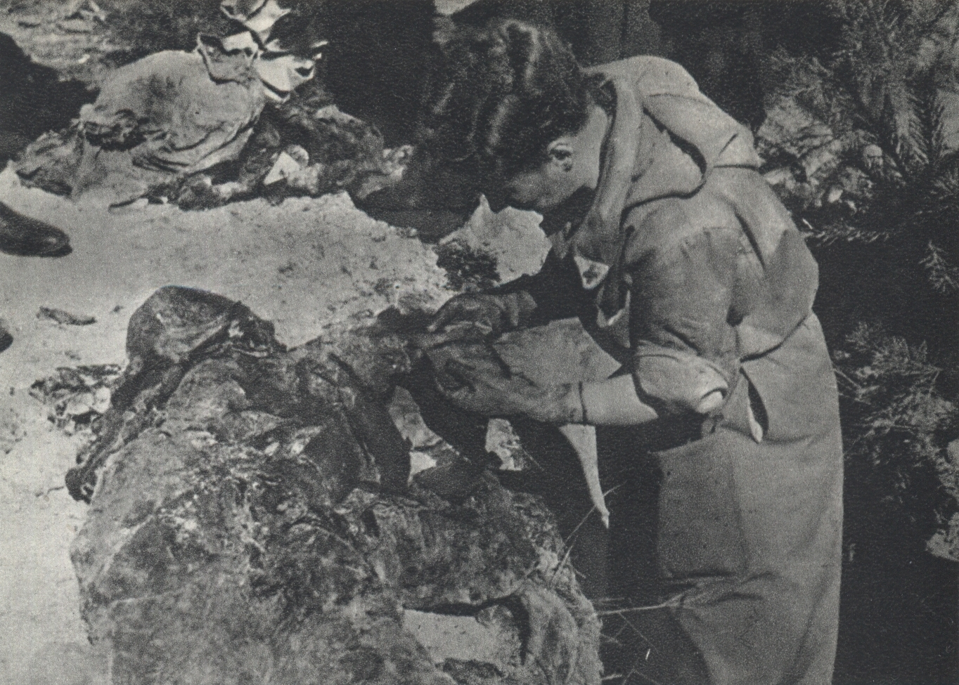 Exhumation of bodies of victims massacred by Nazi-Germans in Palmiry near Warsaw. Female worker of Polish Red Cross makes an initial survey of the documents and remains which were found in the mass graves. Photo taken in 1946.